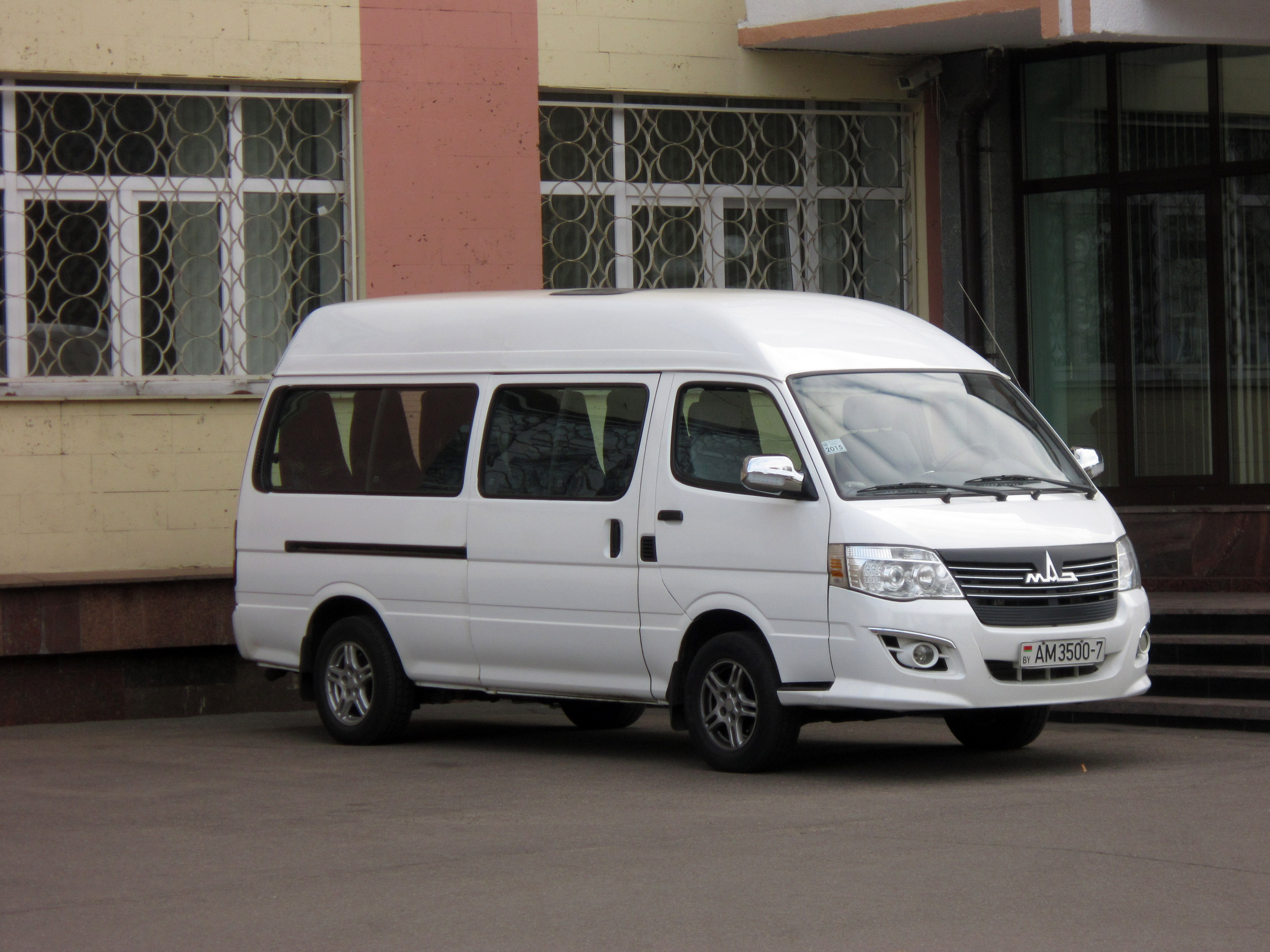 MAZ-181010 minibus